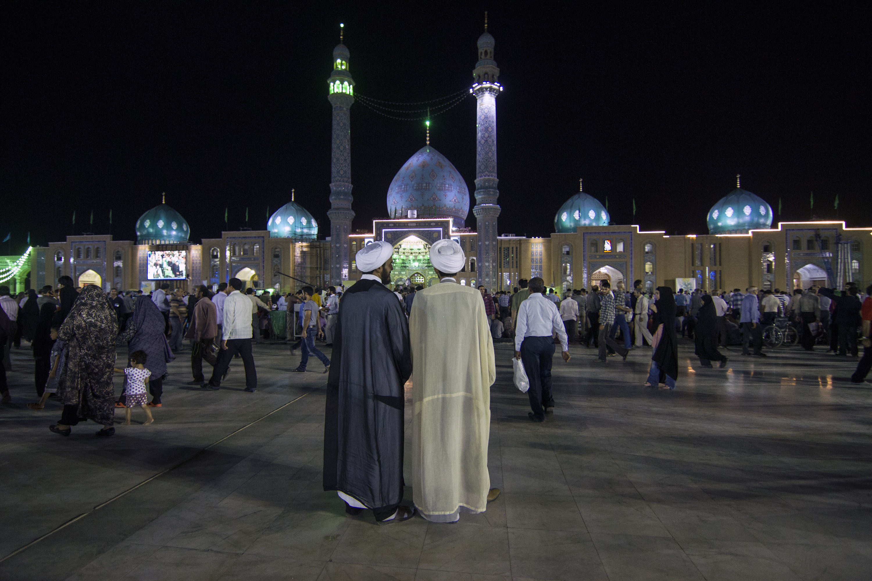 Clergy are some of the main and important formal leaders within certain religions.